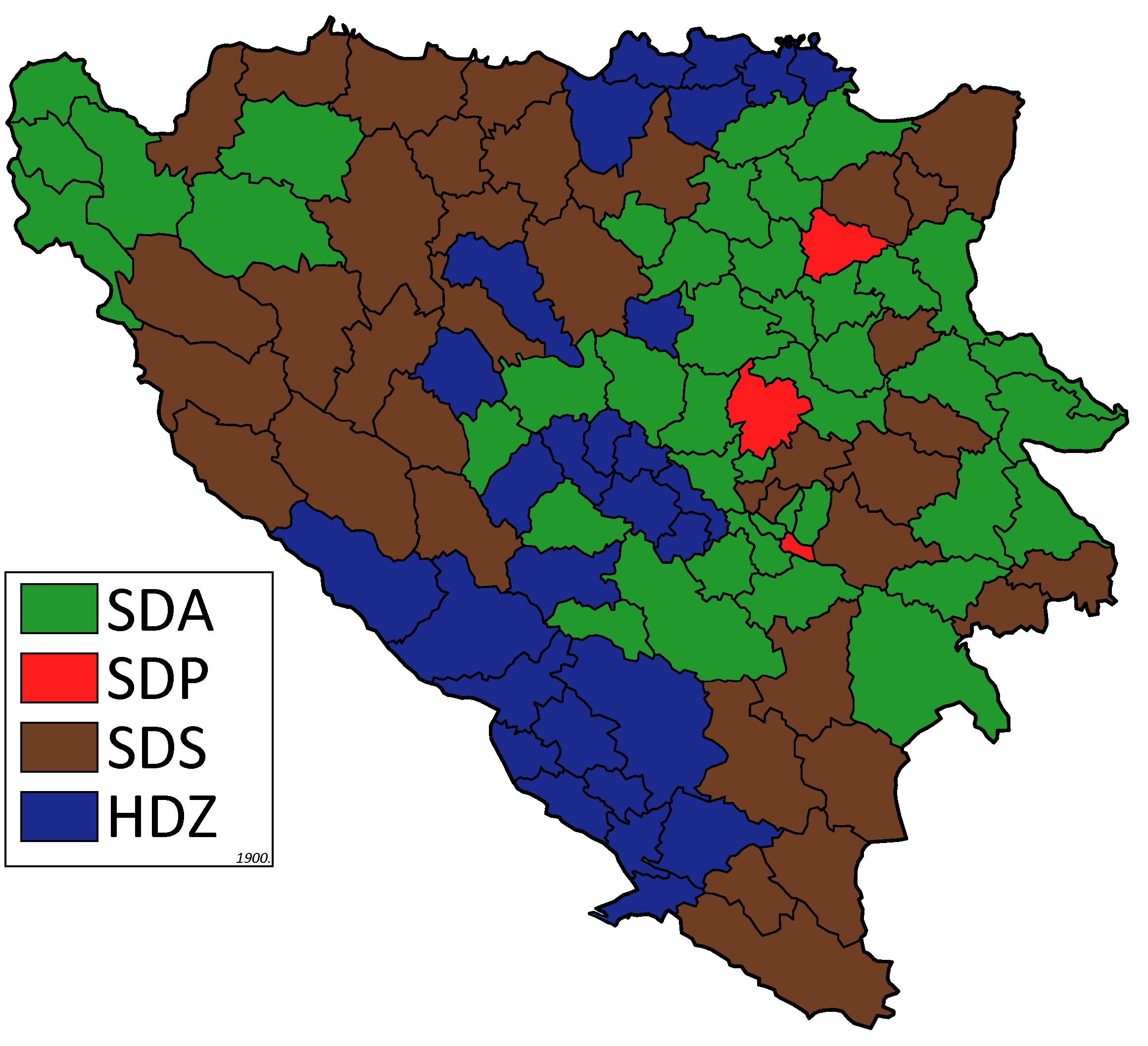 Local elections, Bosnia and Herzegovina, 1990